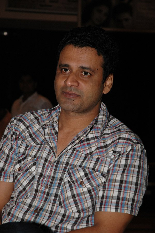 Blue Umbrella premiere at Cinemax